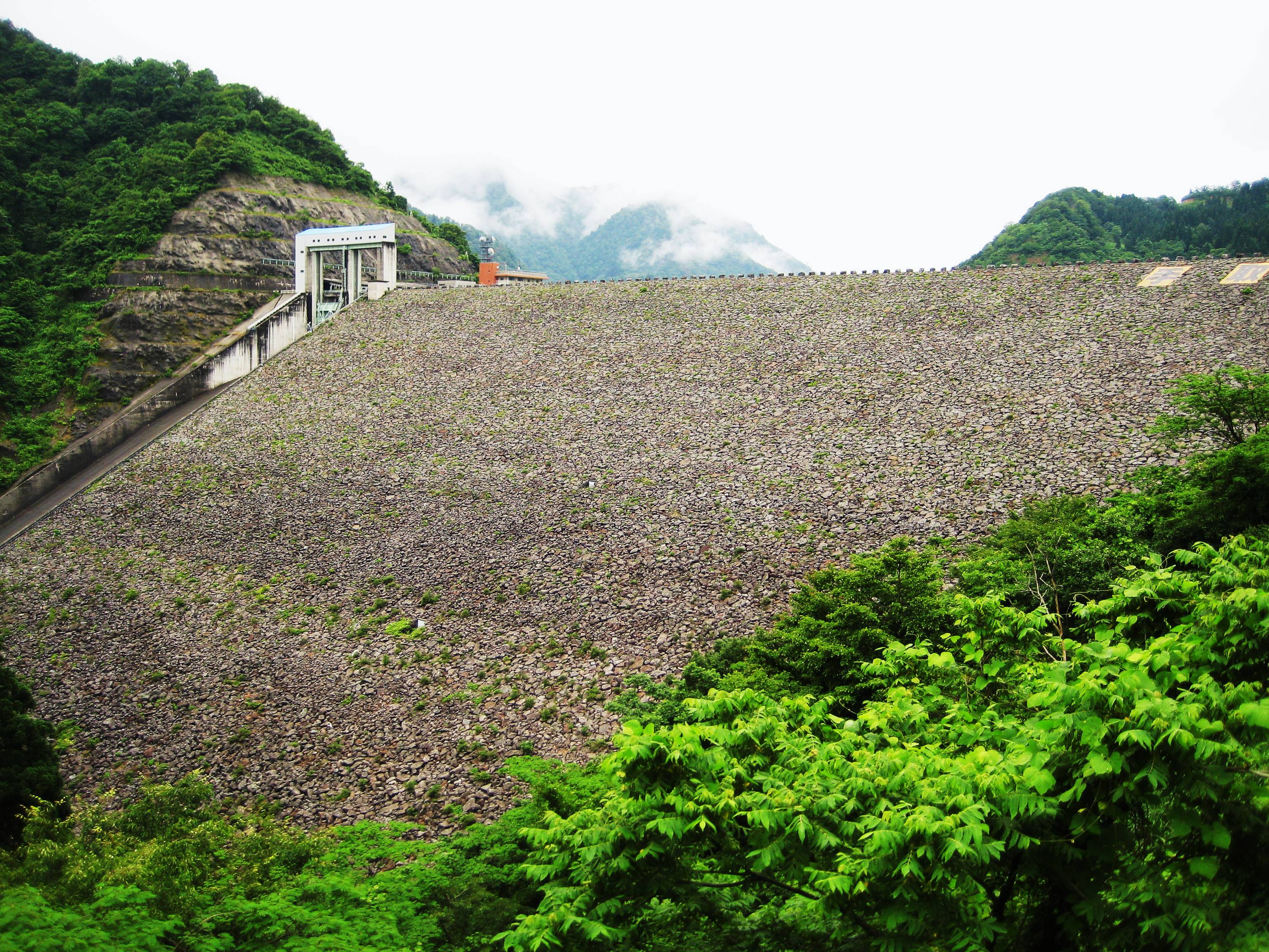 Tedorigawa Dam.